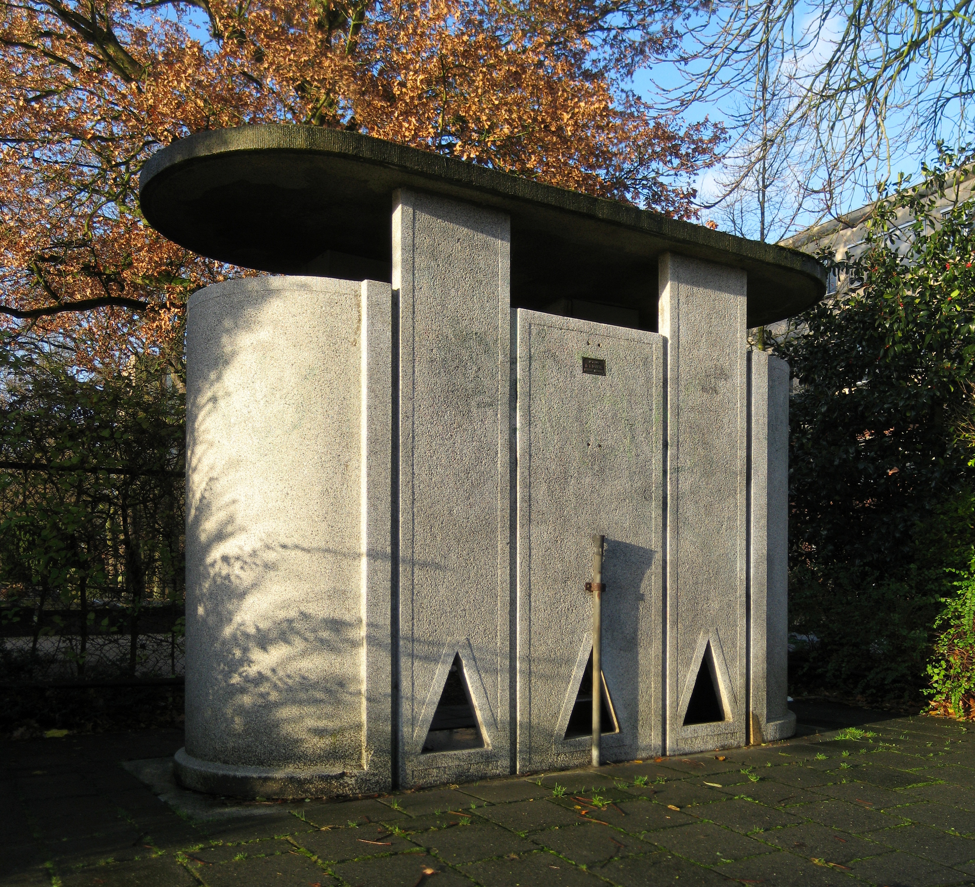 Urinal (1955) in the Dutch city of Groningen.